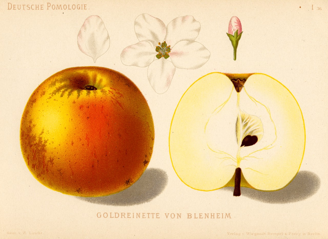 Illustration 36 from Deutsche Pomologie - Aepfel Apple cultivar shown: Goldreinette von Blenheim